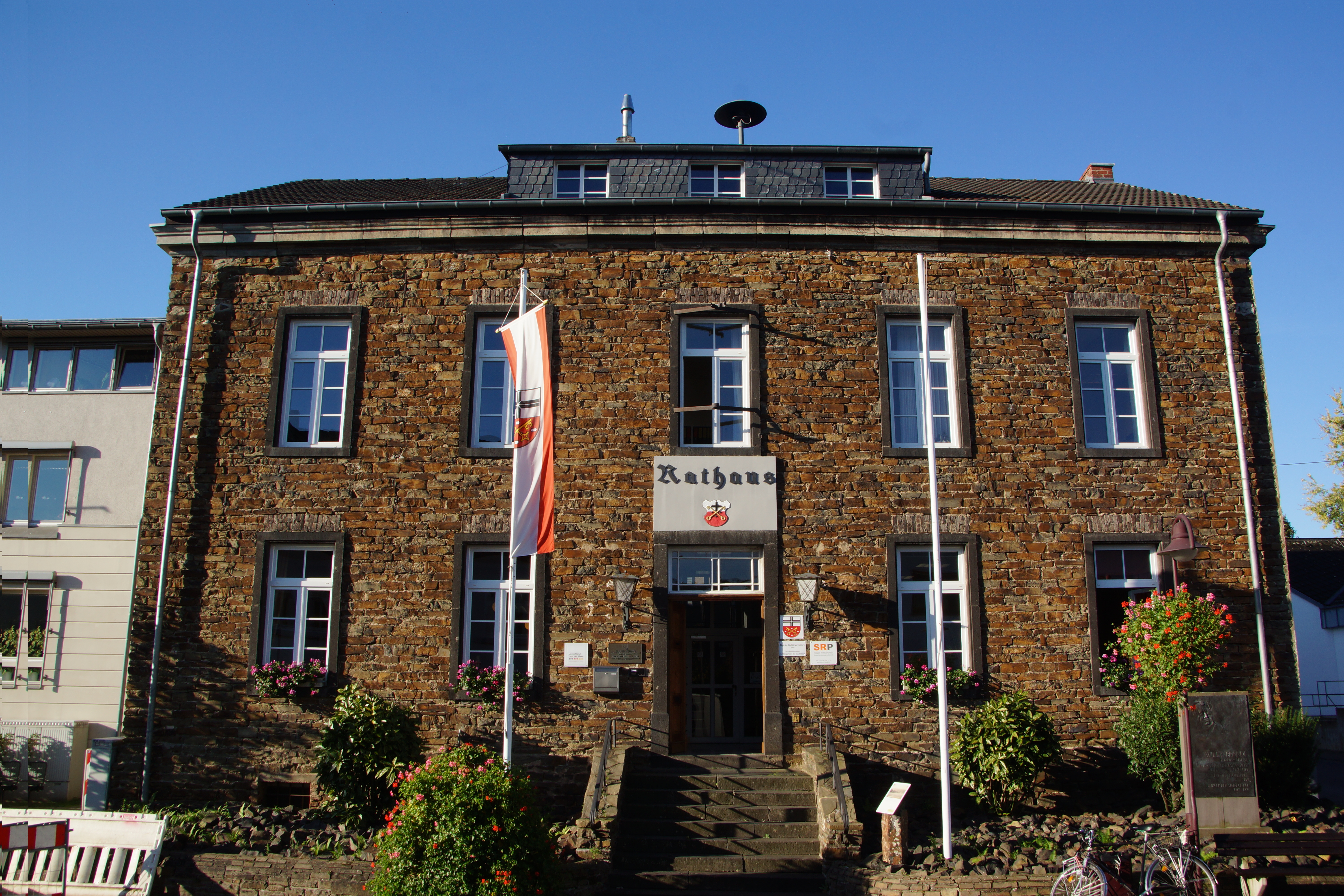 Town hall of Unkel